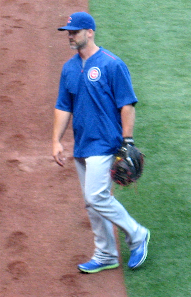 David Ross of the Chicago Cubs, June 30, 2016.